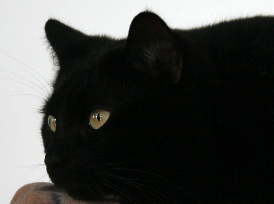 Have a nice Friday 13th! from a Black Cat